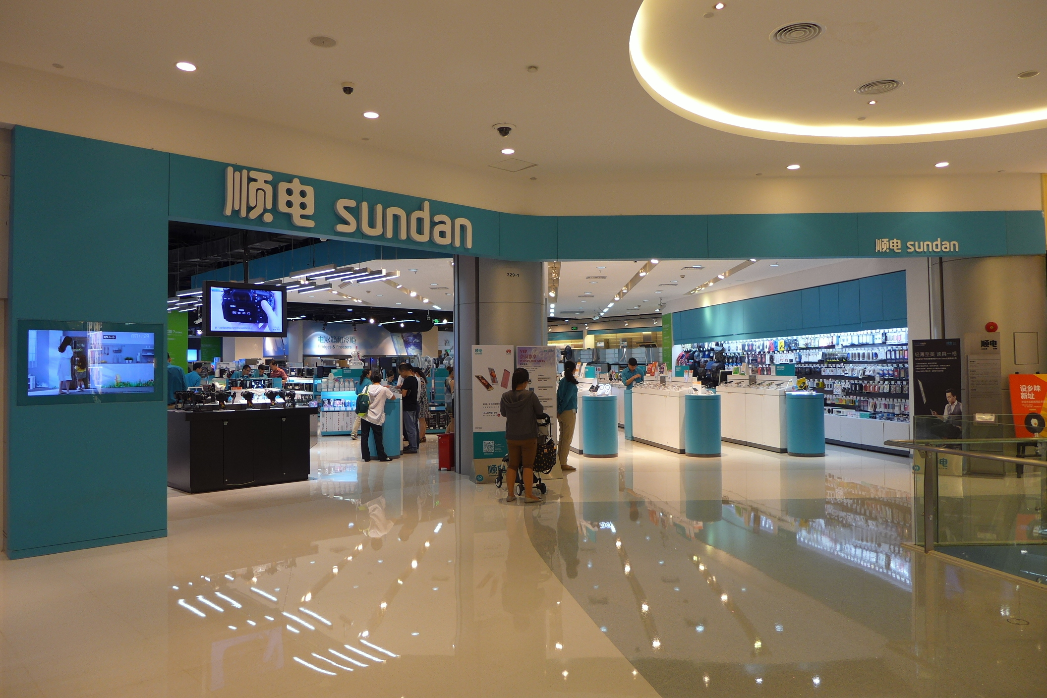 Sundan Store in Coastal City, ShenZhen